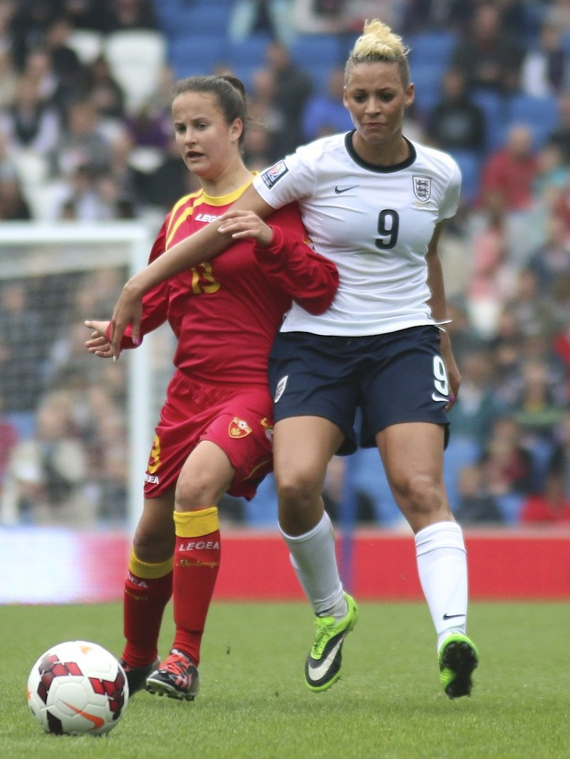 Lianne Sanderson of England and Darija Djukić of Montenegro